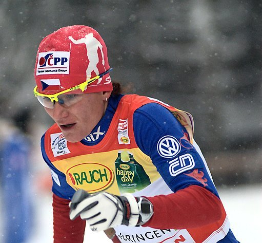 Kamila Rajdlová at the Tour de Ski 2010 in Oberhof